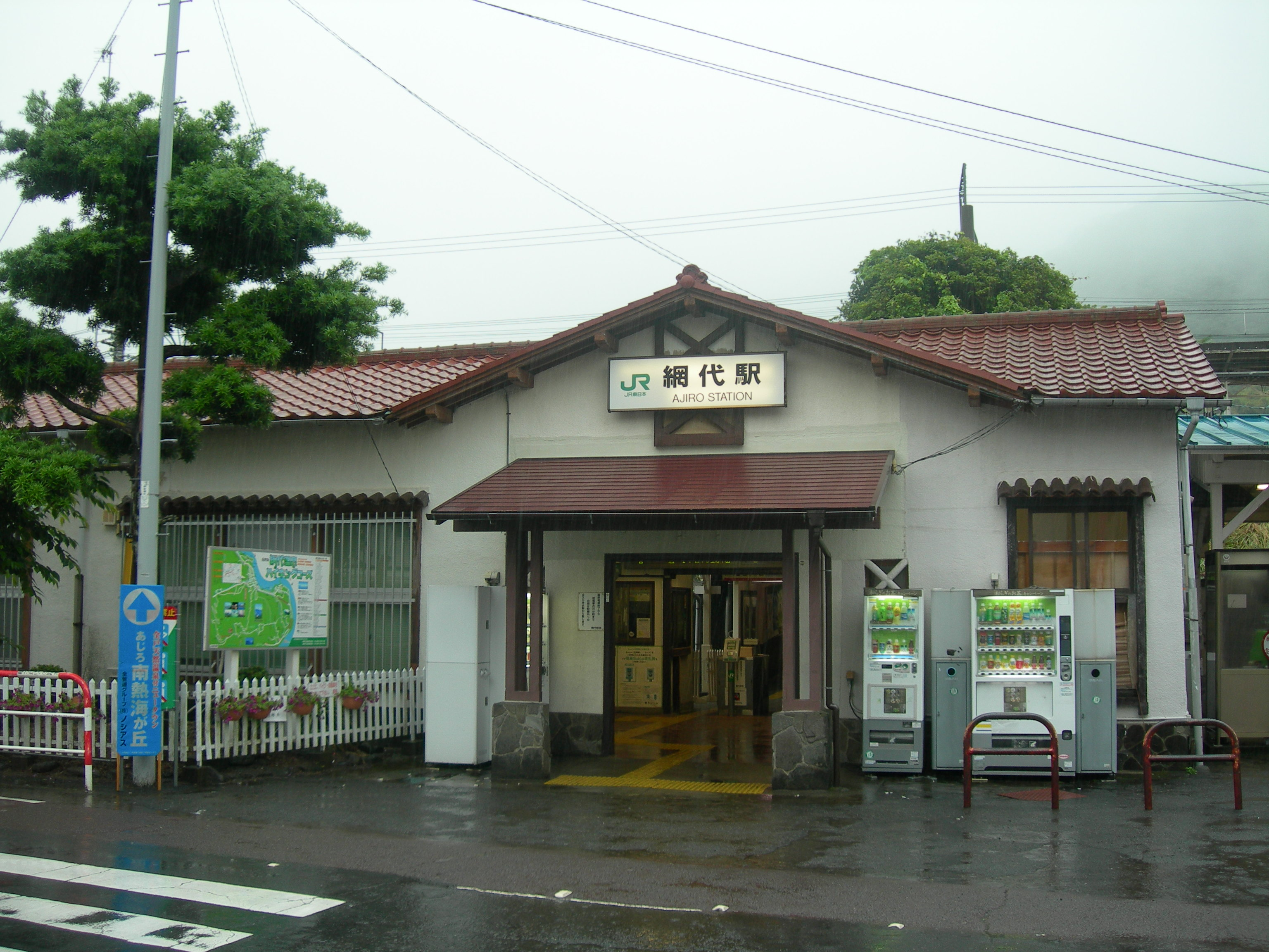 Ajiro Station